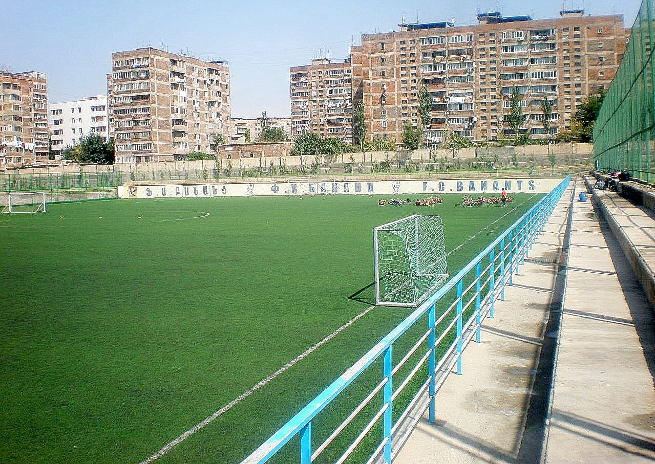 Banants training centre, pitch no.2 (artificial), Yerevan, Armenia.